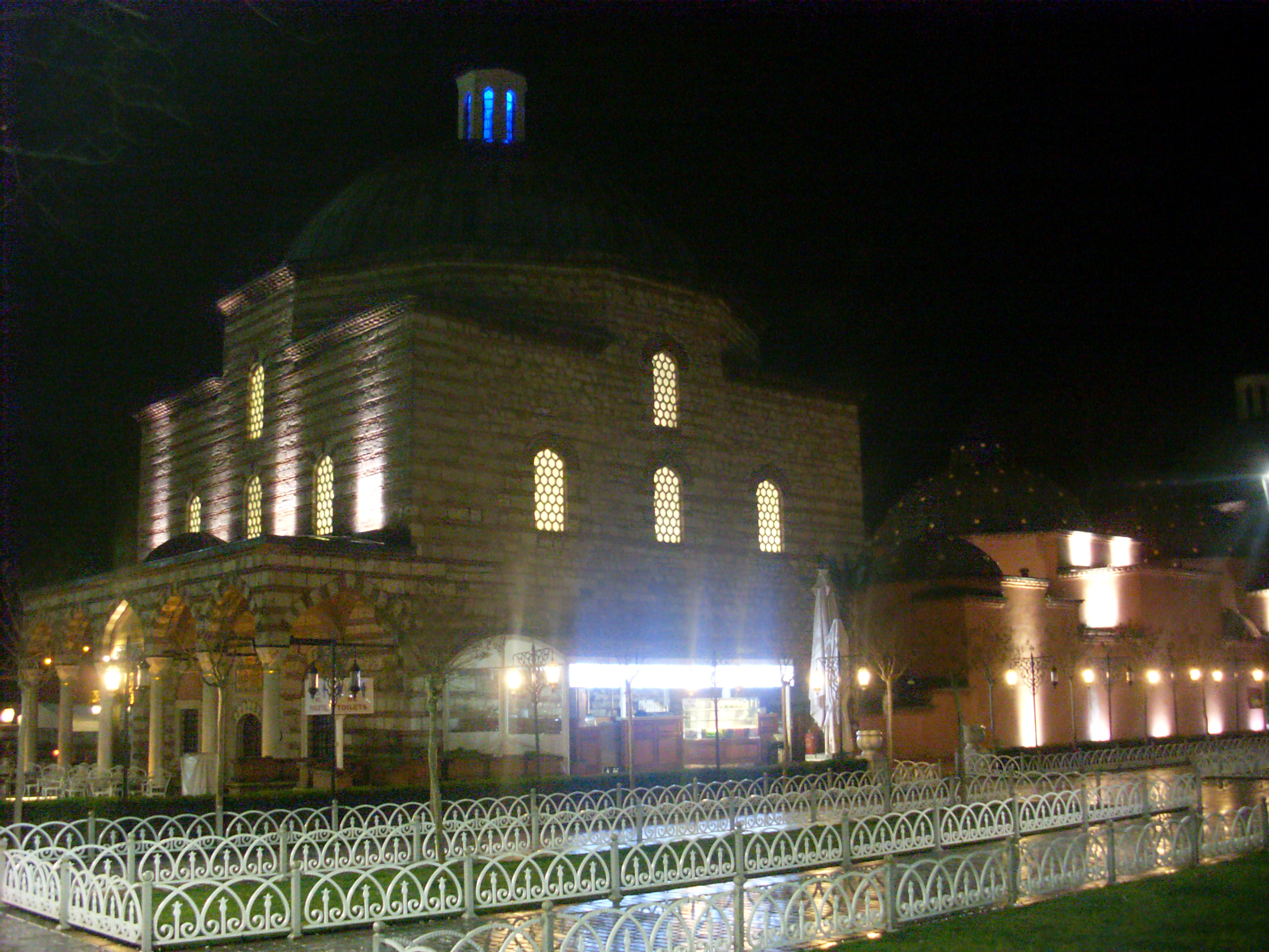 İstanbul - Haseki Hürrem Sultan Hamamı r2 - feb 2013